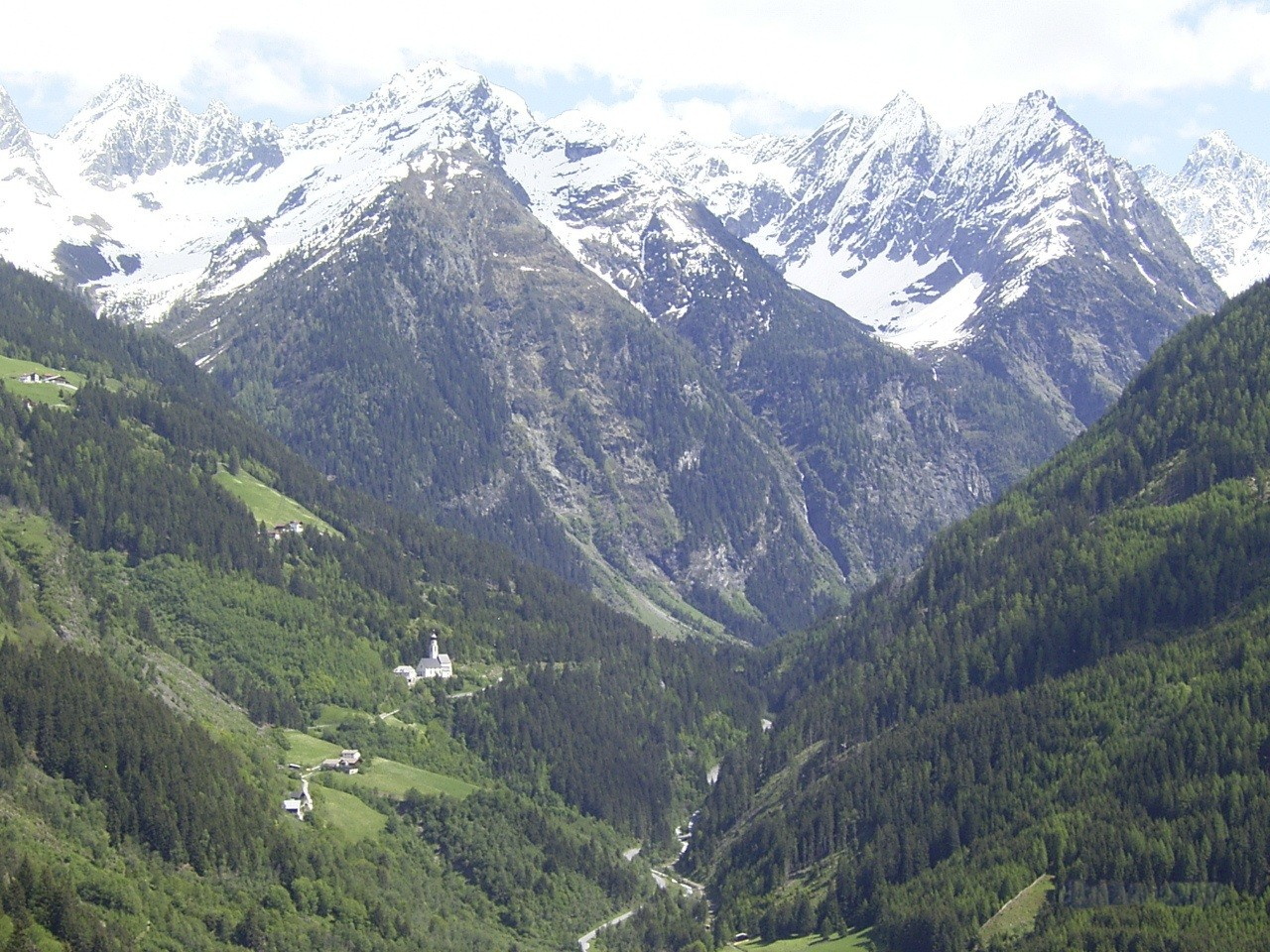 Northern Kaunergrat with church Kaltenbrunn. Großer Dristkogel (3059m), Brühkopf 2703m, Pt. 2996m, Hochrinnegg (3027m), Schweikert (2881m) und Schwabenkopf (3379m)